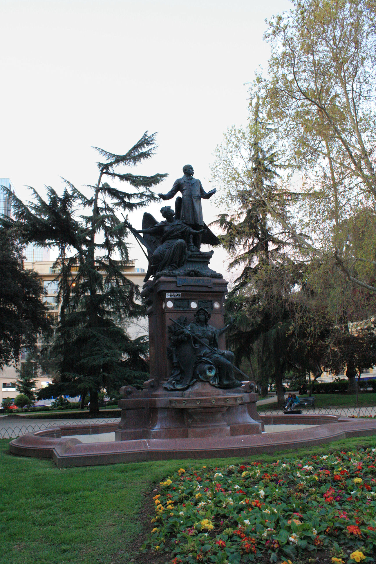 It's near the National Archives in Av Libertador Bernado O'Higgins